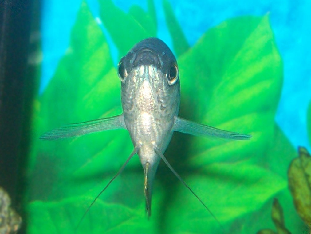 Female Three Spot gourami close up